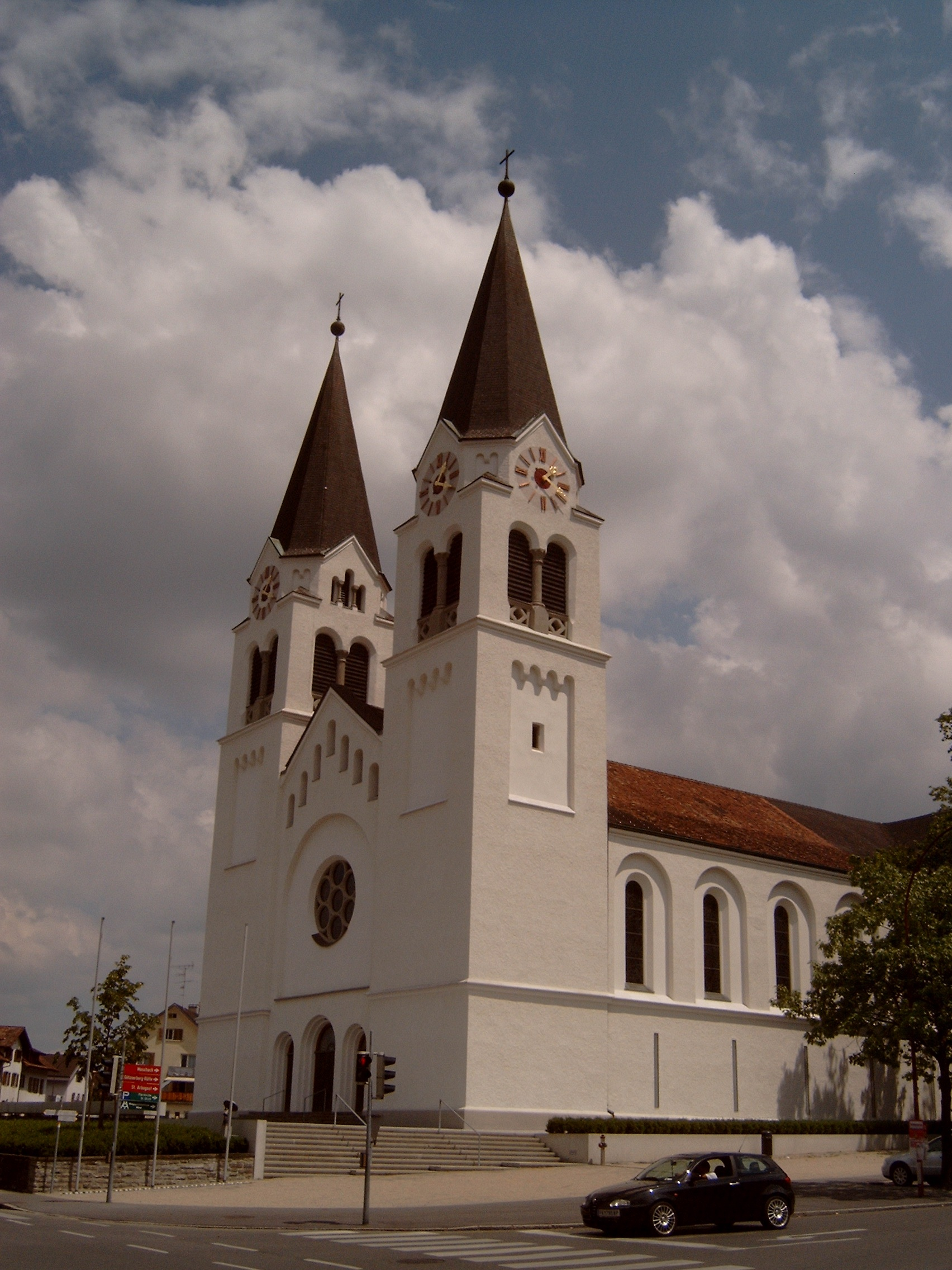 Götzis, church: Pfarrkirche hl. Ulrich